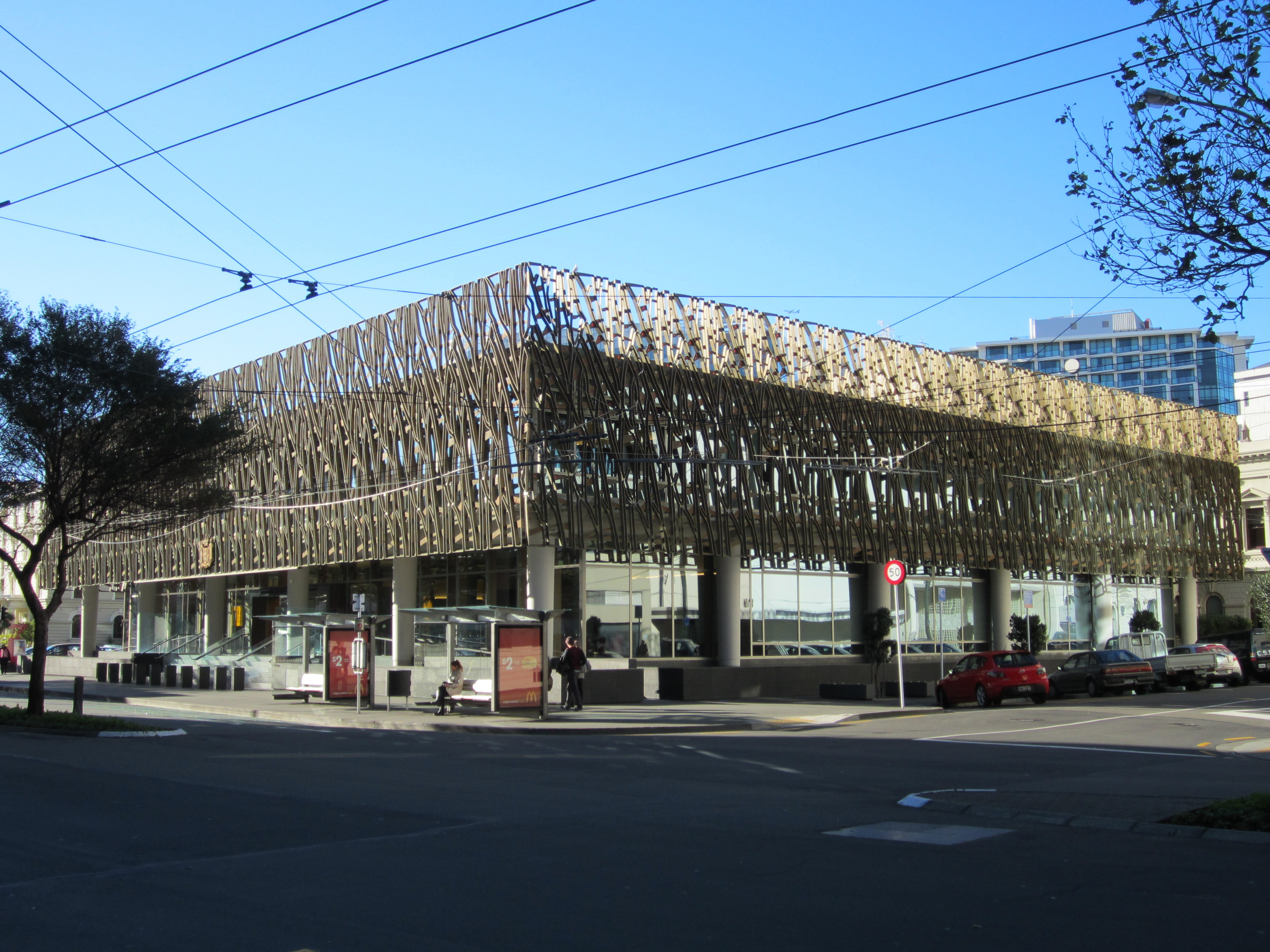 The building which houses the Supreme Court of New Zealand